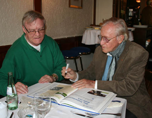 Former football player Dieter Danzberg (left) and coach Rudi Gutendorf (right) during a signing session in Bottrop (Germany), May 2011